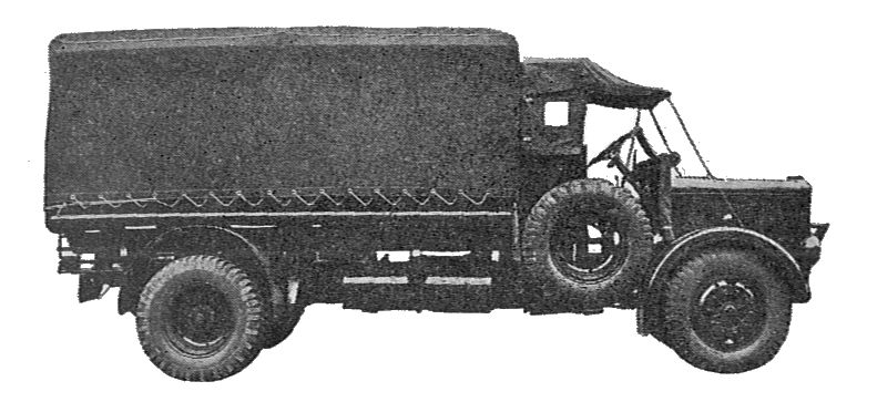 Tilling-Stevens petrol-electric searchlight lorry of 1937